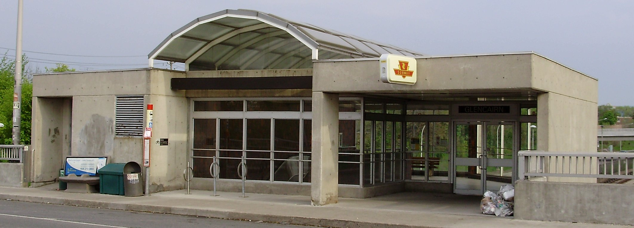 The Toronto Transit Commission's Glencairn station in Toronto, Canada.